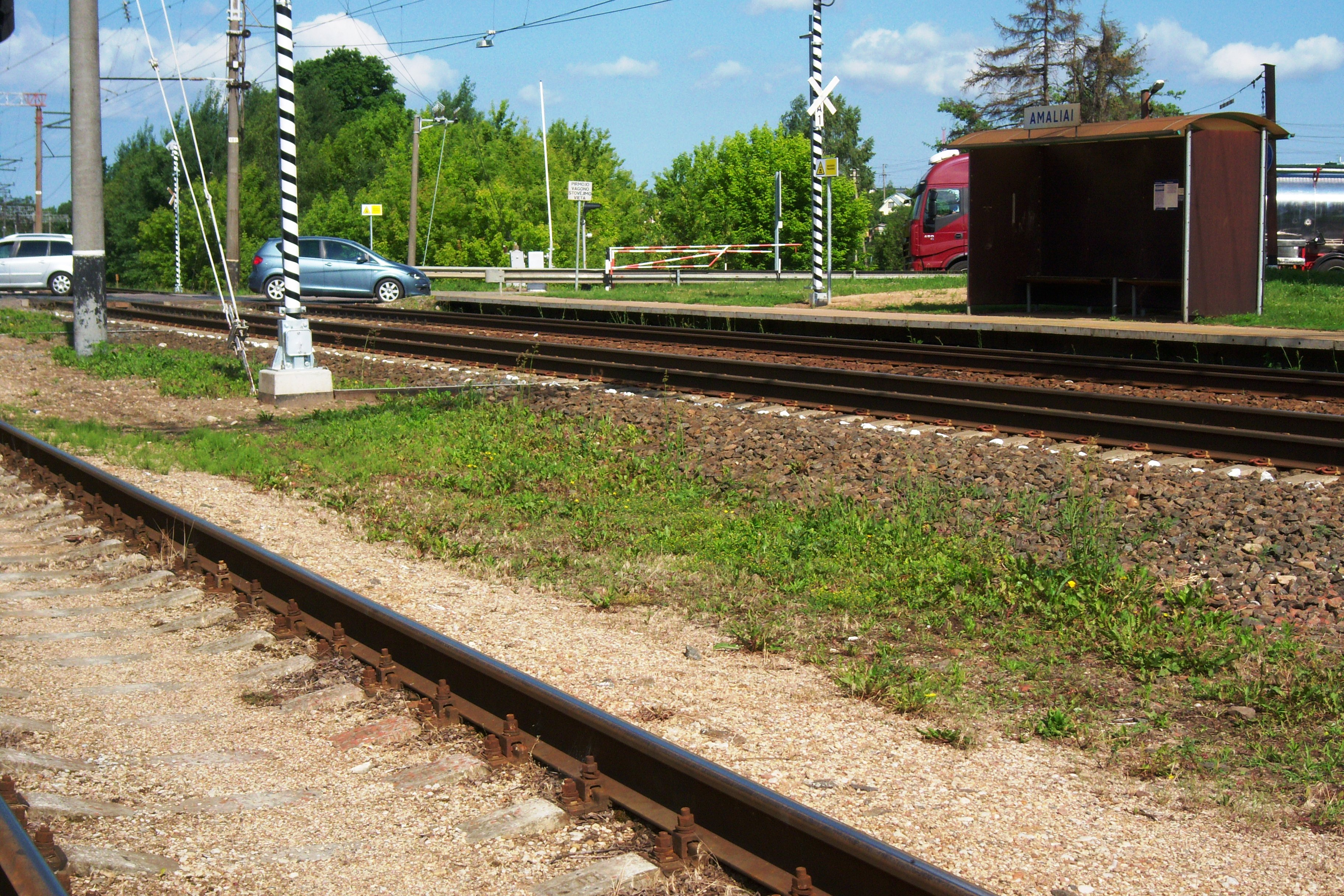 Amaliai train stop, Kaunas, Lithuania